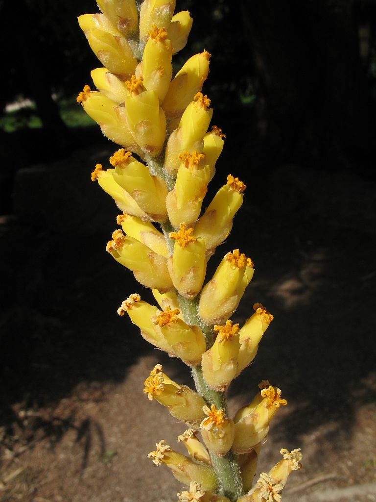 Dyckia velascana in cultivation at the Botanical Garden of Heidelberg, Germany.